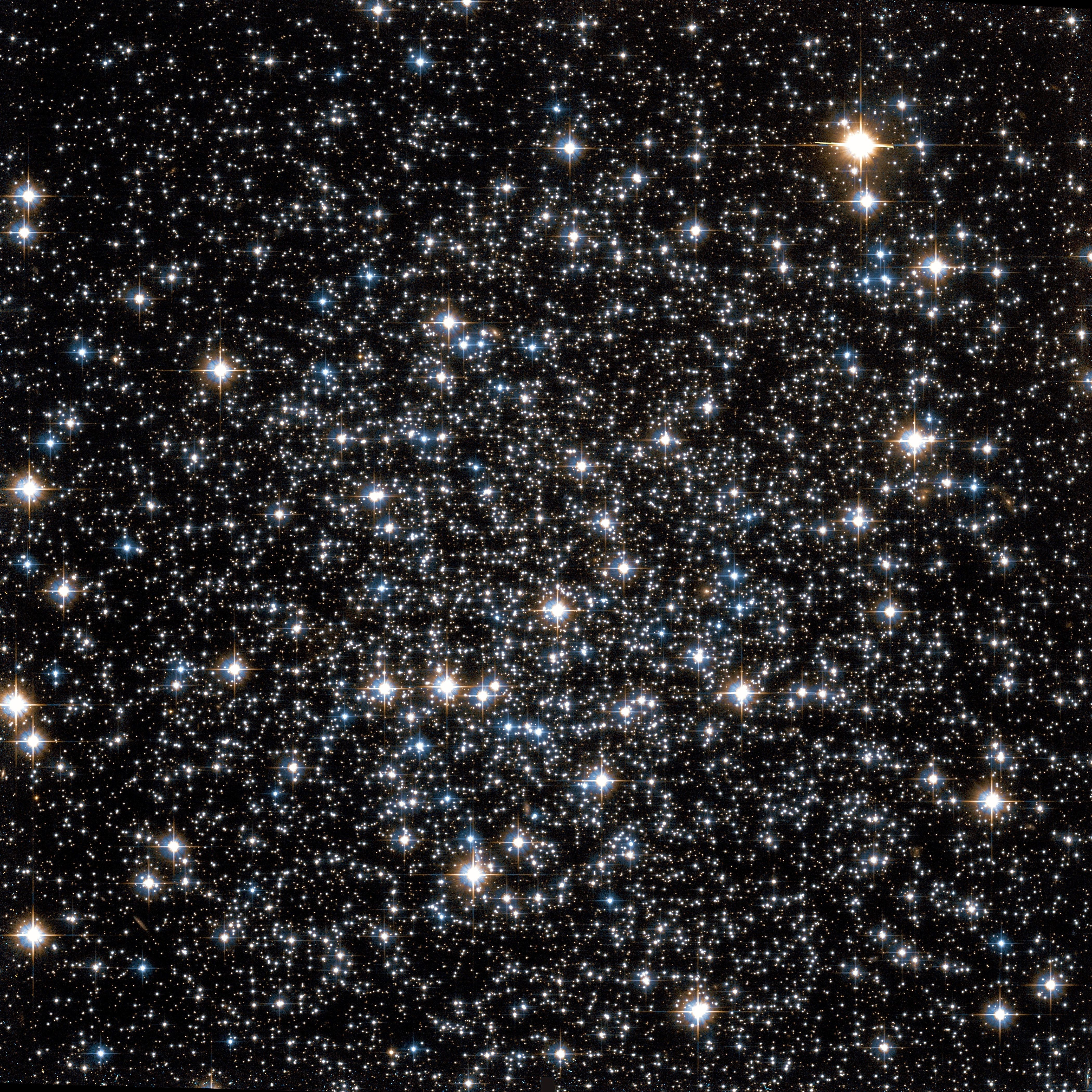 NGC 288 globular cluster by Hubble Space Telescope; 3.5′ view